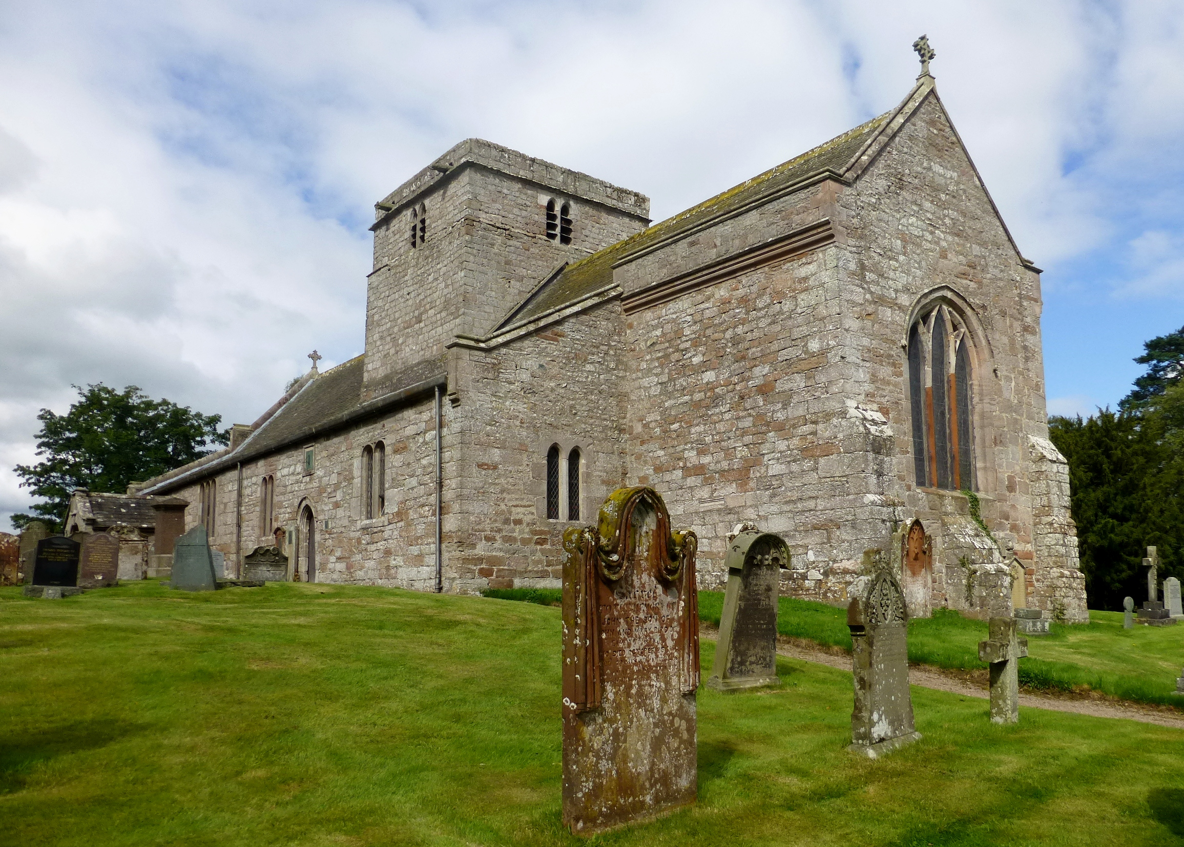 Photograph of St Michael's Church, Barton, Cumbria, England